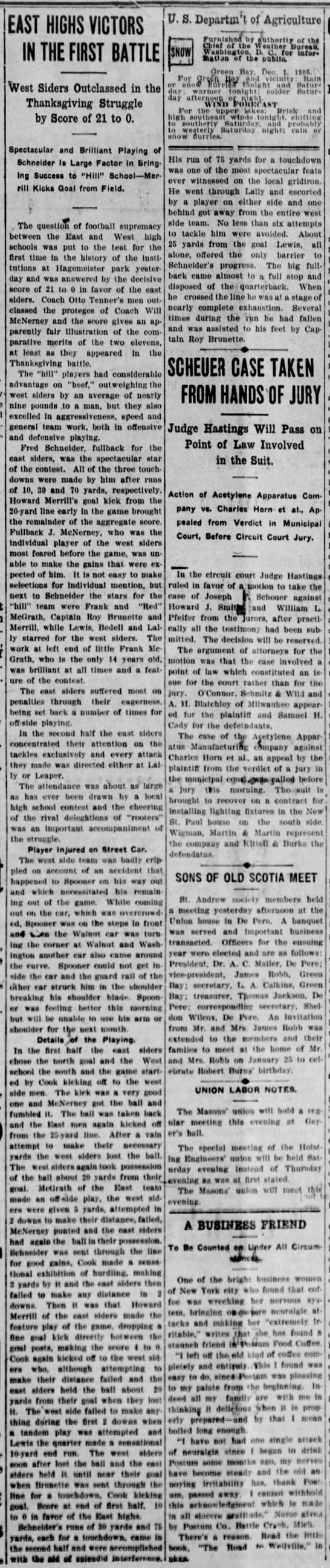 An article of the first meeting of the Green Bay East-West football rivalry.